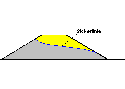 seeping line in a dam